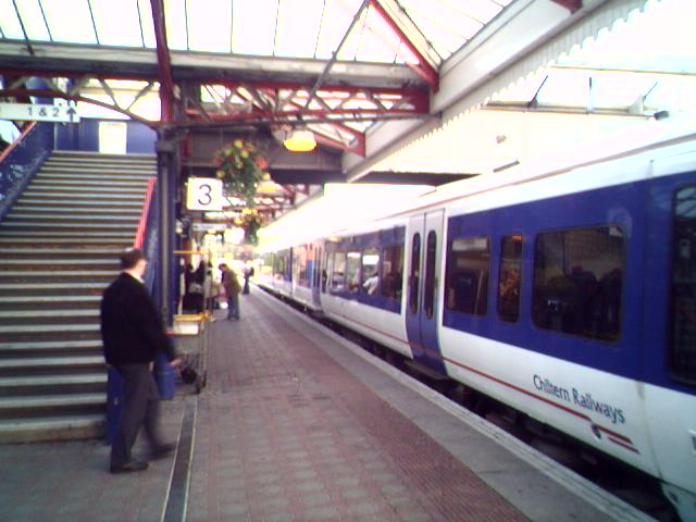 Aylesbury railway station platform 3